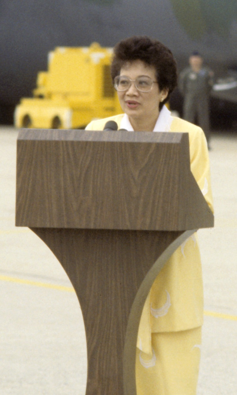 Cropped photo of President Corazon Aquino from this Defense Department Photo.